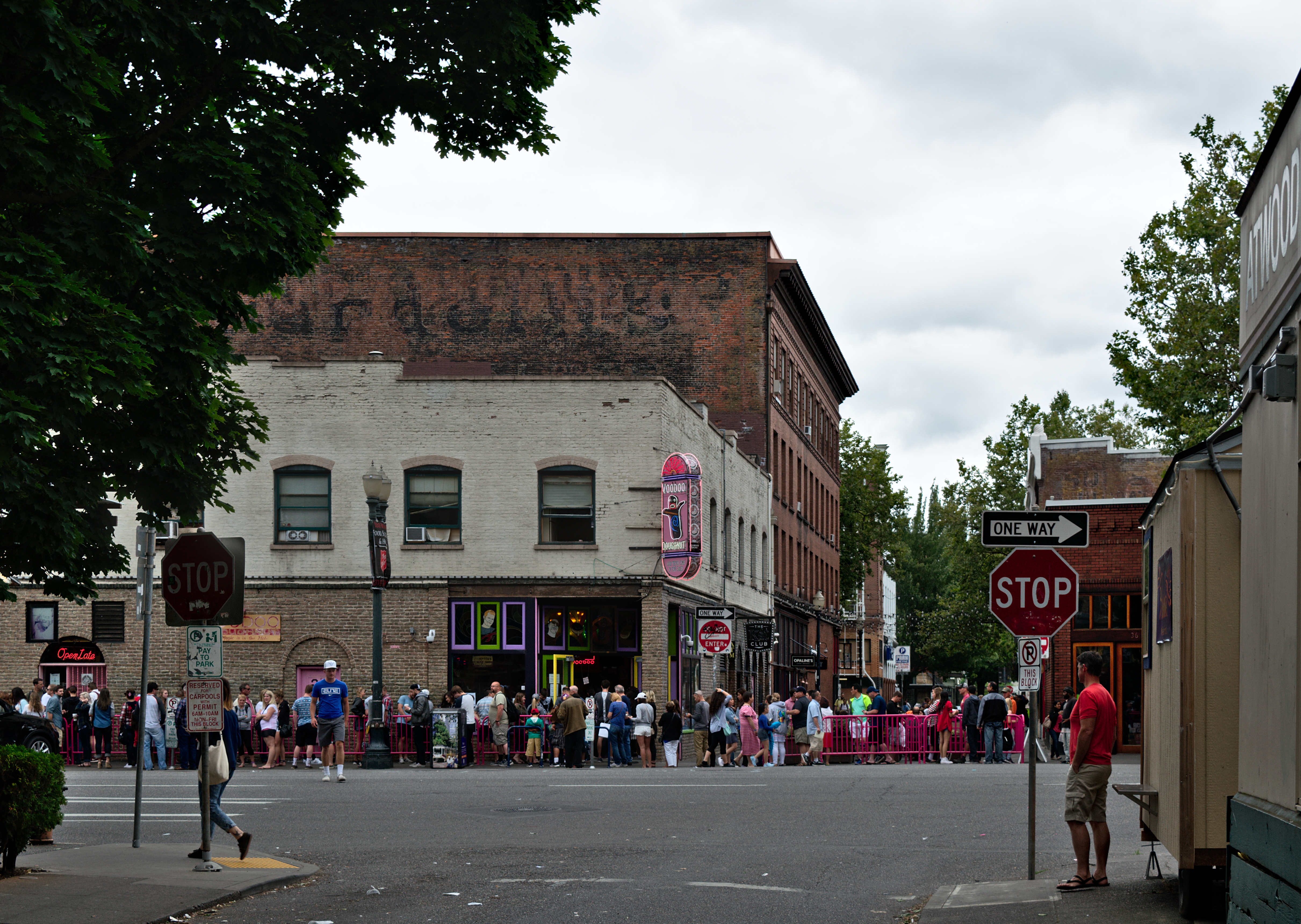 Long queue of people lined up in front of Voodoo Doughnut in Portland, OR